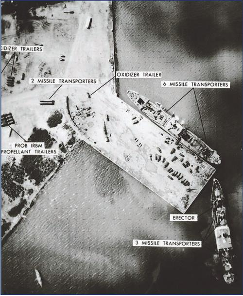 This 1962 U.S. Department of Defense photo shows Soviet missile equipment beeing loaded at port in Cuba. Between 4 and 6 of November 1962 due to dry cargo vessel alongside is "Metallurg Anosov" and this vessel arrived to Cuba on the last weak of October and was underway with this cargo on the 7 of November. "Metallurg Anosov" was built in September, 1962. Тhe ship was put into operation от the 29 of September, 1962. It is maden voyage of "Metallurg Anosov" from Black Sea to Cuba and back/ It is already missile equipment loaded on deck to back to USSR.